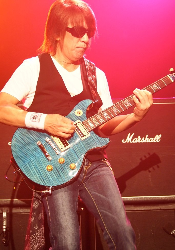 Tak Matsumoto performing with B'z on September 30, 2012.